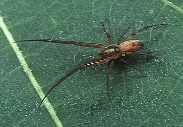 male Octonoba okinawensis from Okinawa.